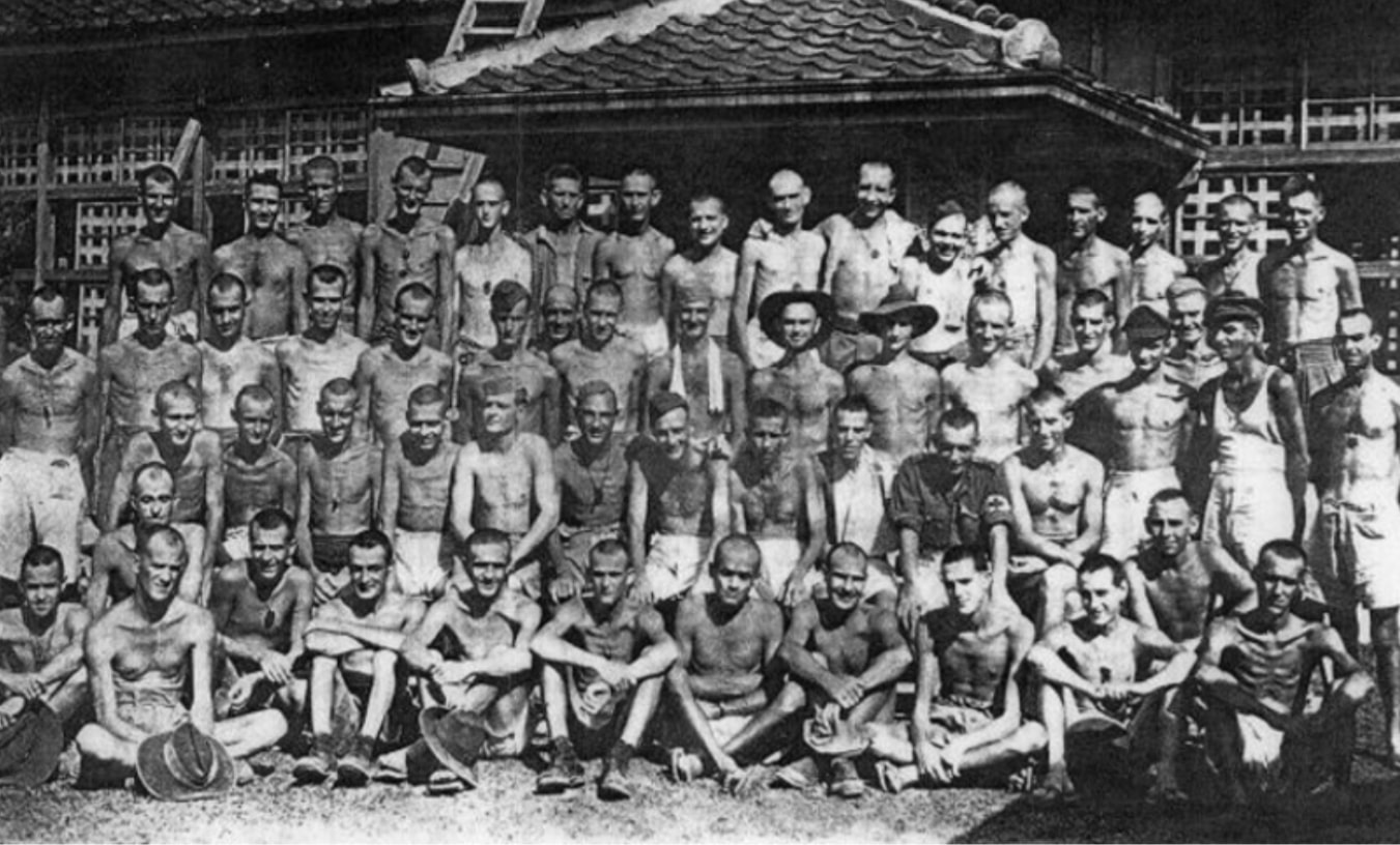 Australian prisoners of war forced to work for the Aso mining company in Kyushu, Japan pose for a group picture in August 1945.